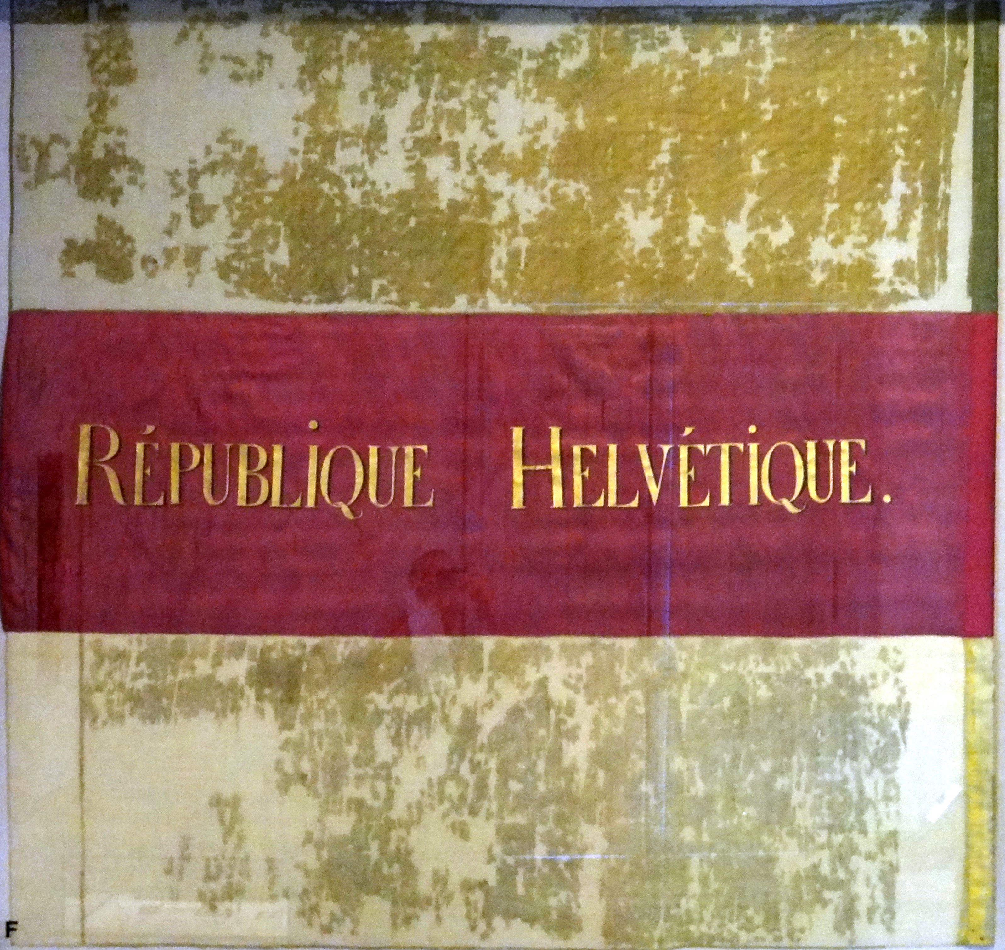 flag of the former Helvetic Republic (reverse side in French)